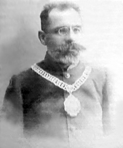 Metropolitan Ilarion (Ivan Ohienko) (1882-1972)